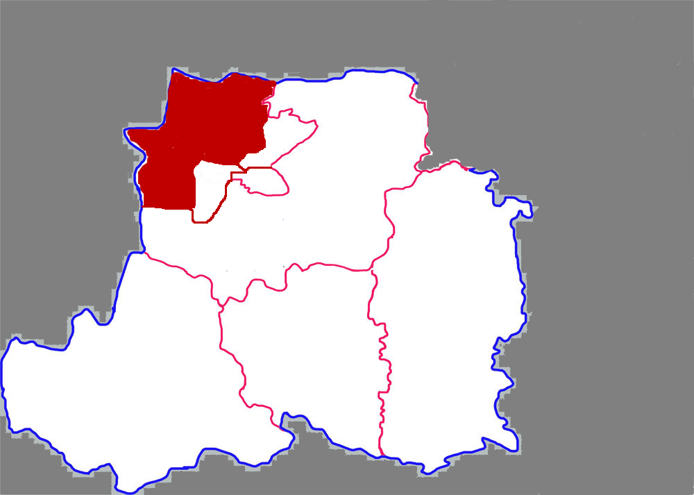 Location of Longting district in Kaifeng city, China